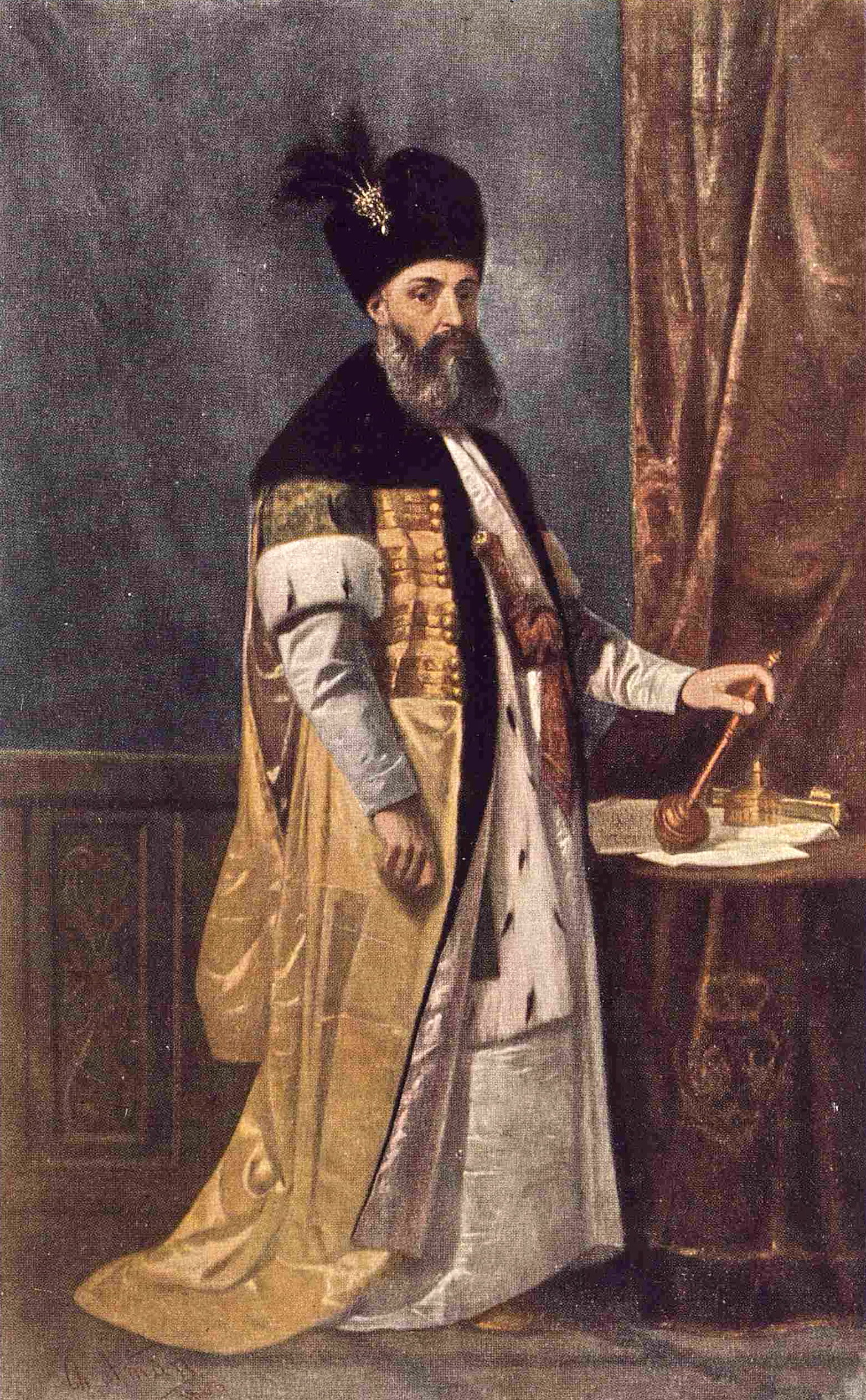 Theodor Aman - Portrait of Grigore II Ghica, ruler of Wallachia